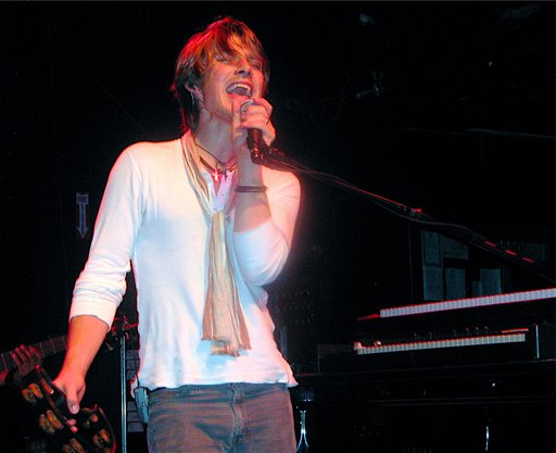 I am the originator of this photo. I hold the copyright. I release it to the public domain. This photo depicts Taylor Hanson at a Hanson concert.